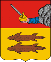 Lalsk (Kirov oblast), coat of arms (1781)